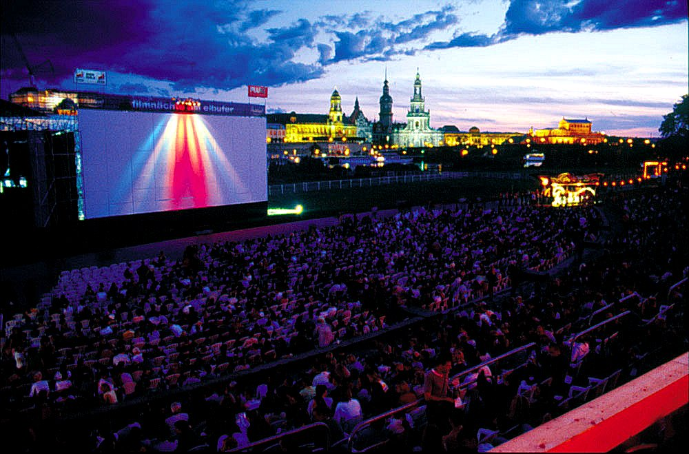 Open-air cinema, Dresden. Film night at the Elbe river banks